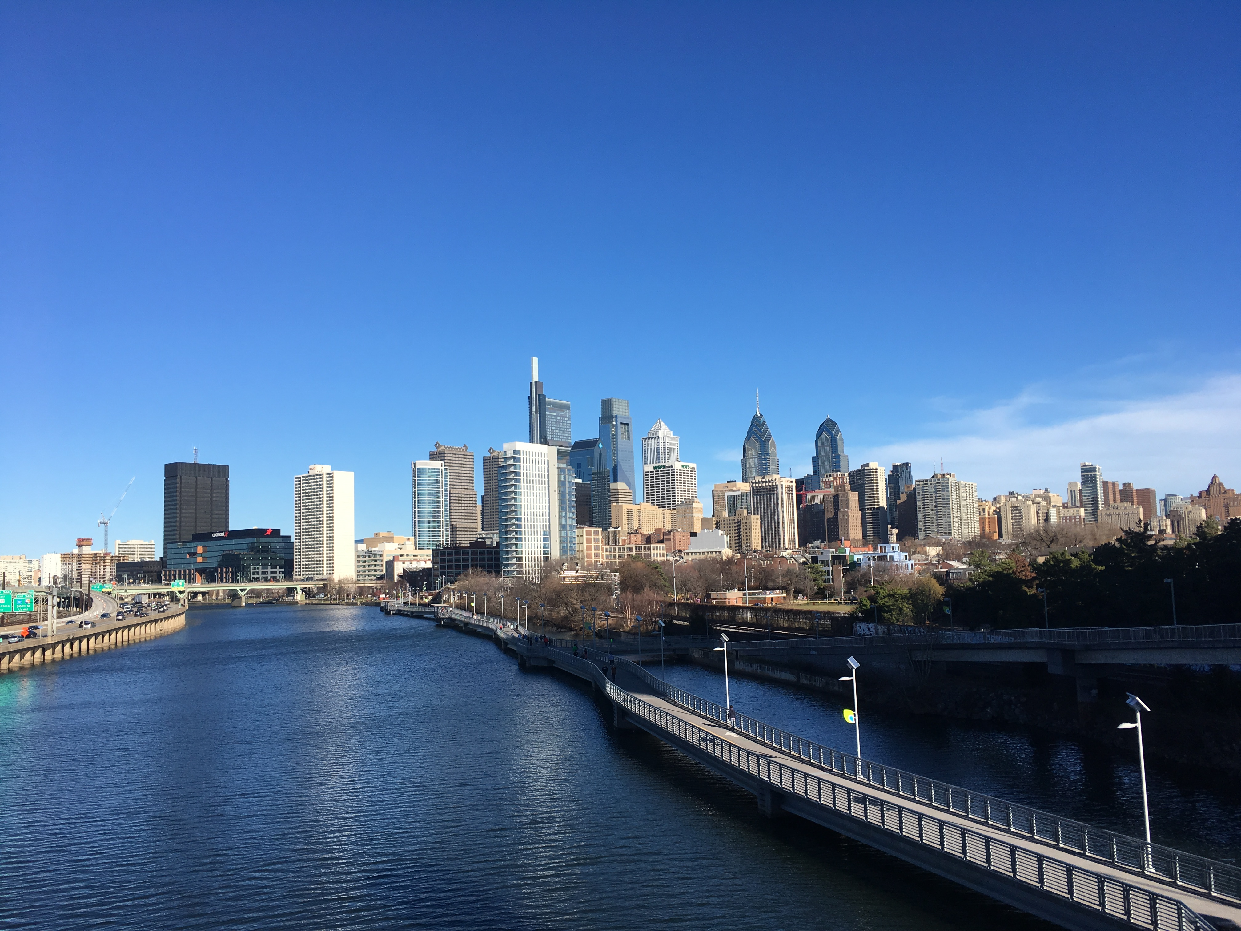 The skyline of Philadelphia, Pennsylvania viewed from the South Street Bridge over the Schuylkill River